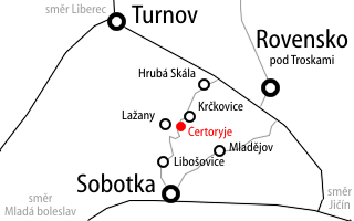 Orientation map of Český ráj with marked Čertoryje.